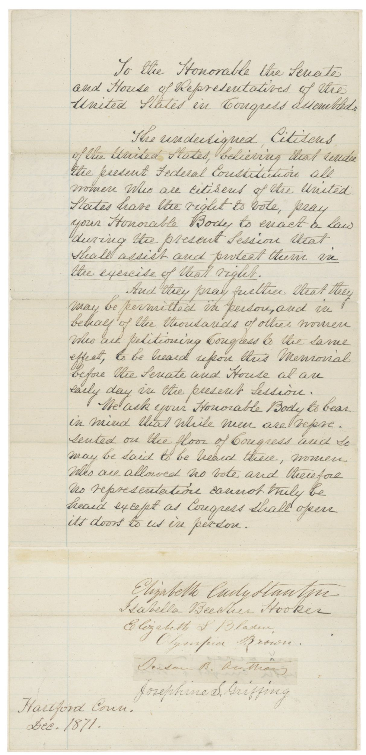 Letter